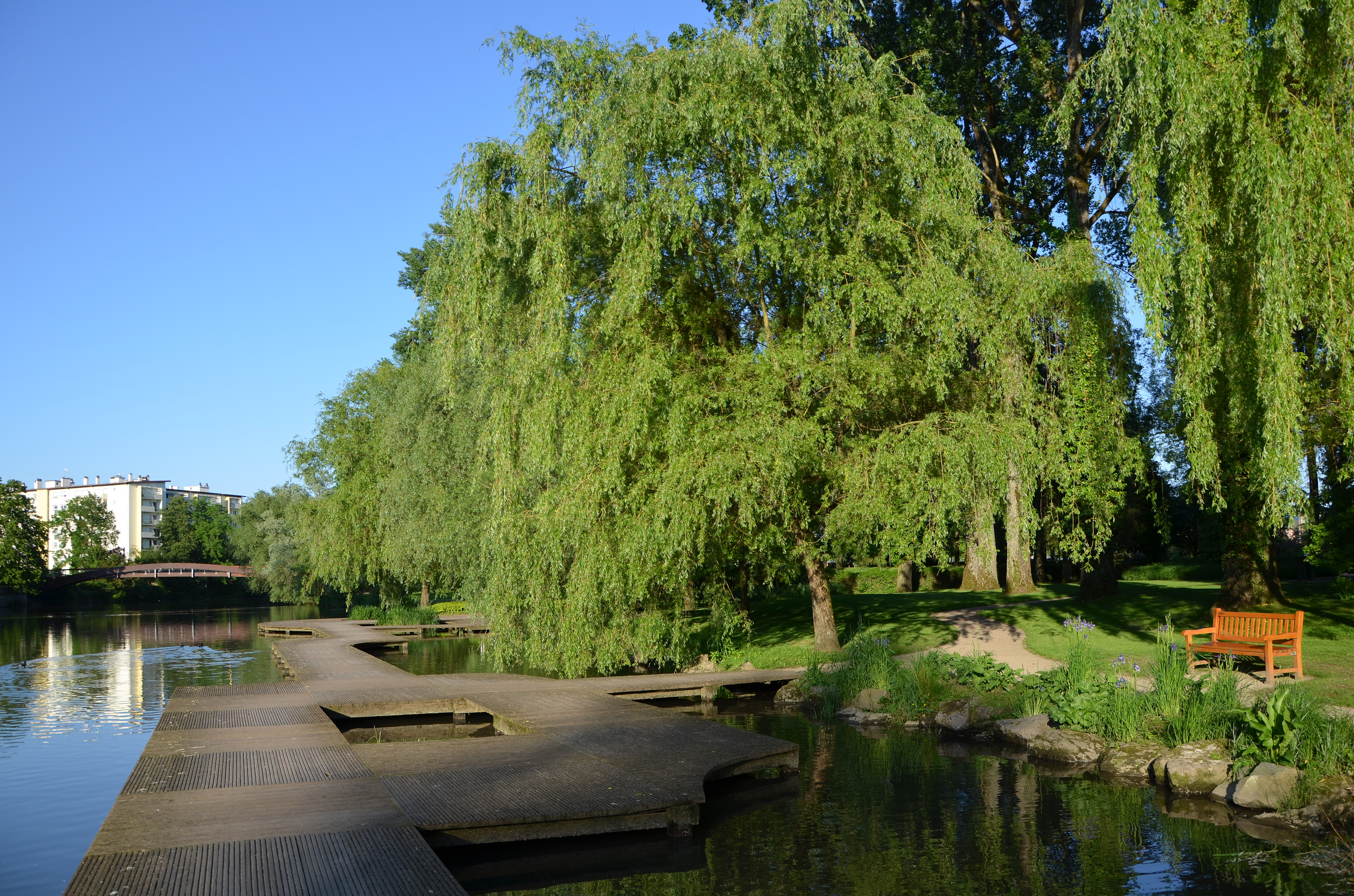 "Scientific" park of Près-la-Rose on the Allan river in Montbéliard, Doubs, Franche-Comté, France